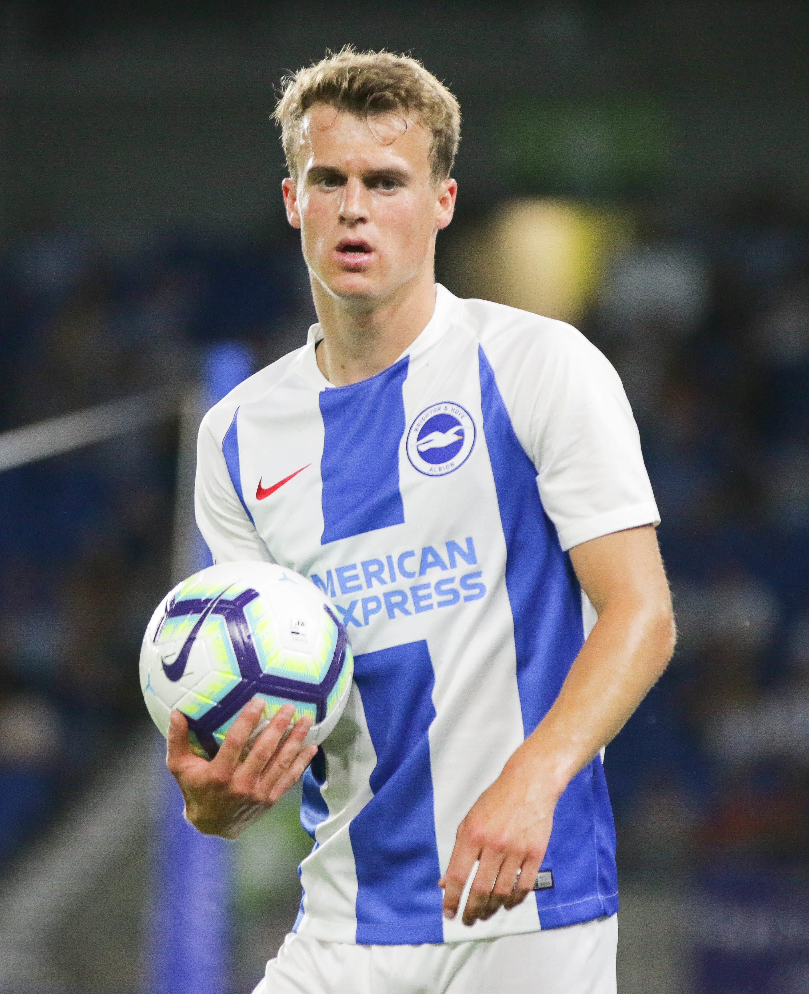 BHA v FC Nantes pre season 03 08 2018-975.jpg